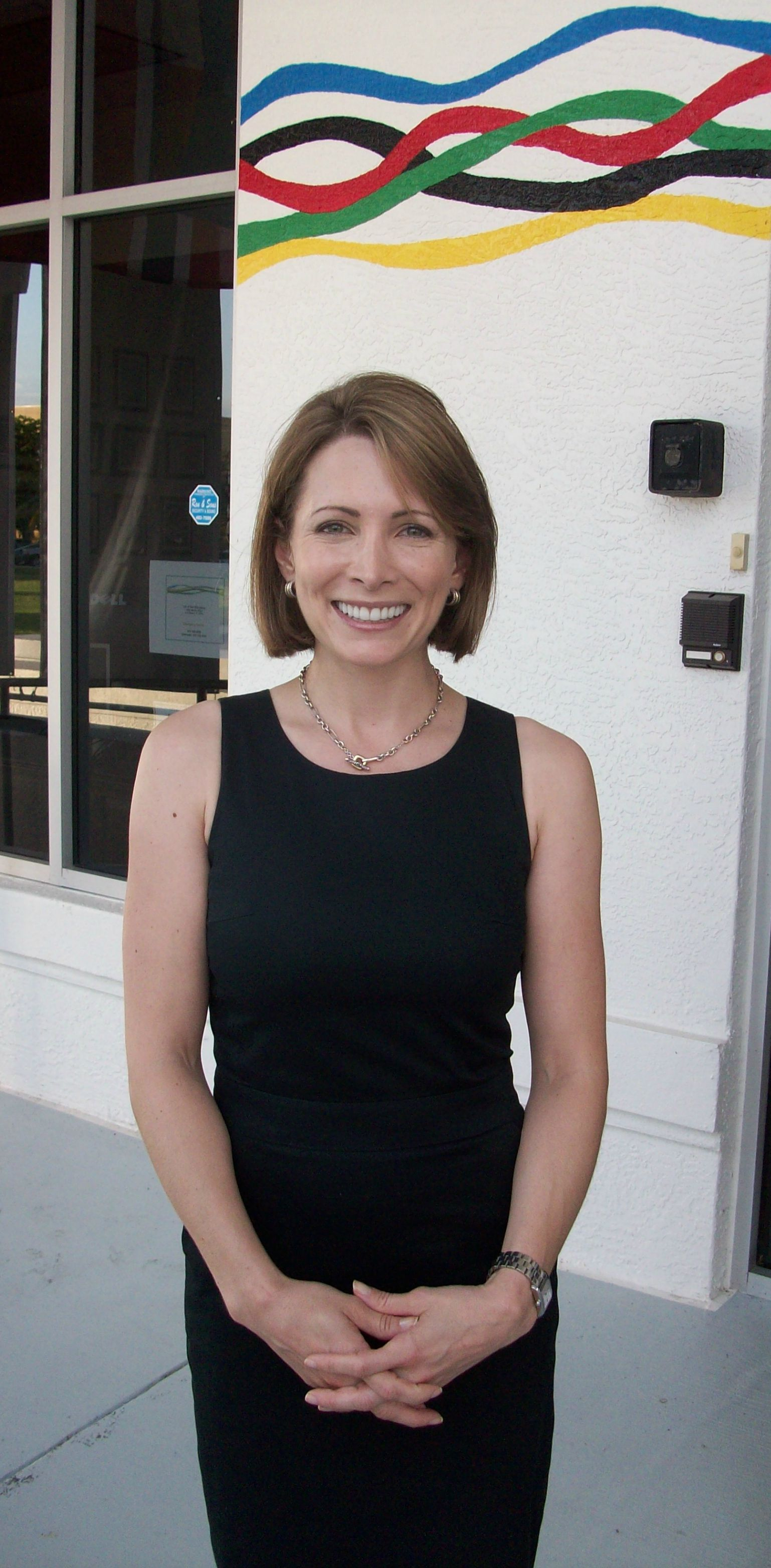 Olympic gold medalist Shannon Miller in Fort Myers, FL